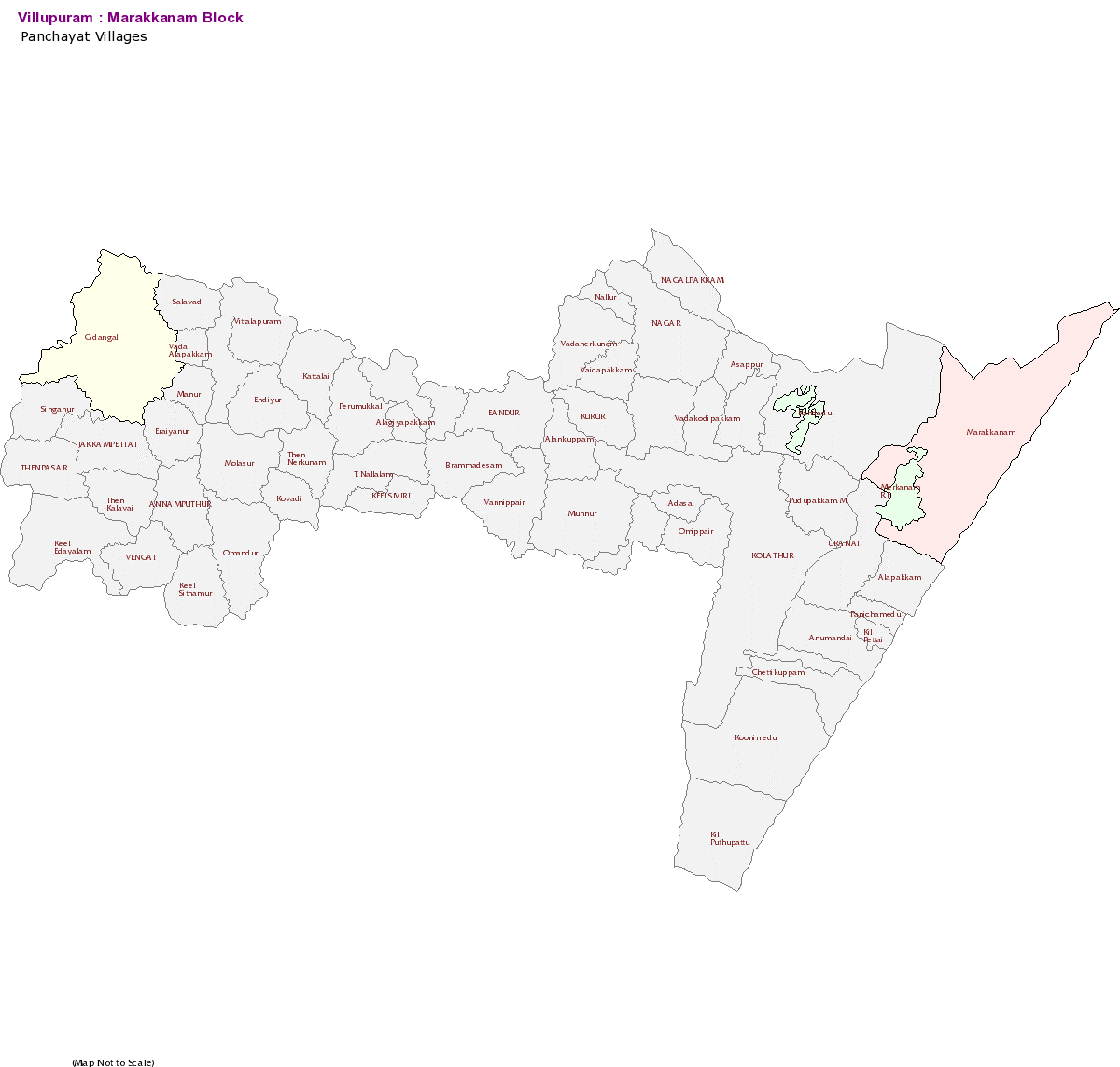 Map Indicating Blocks of MarakkanamPanchayat Union